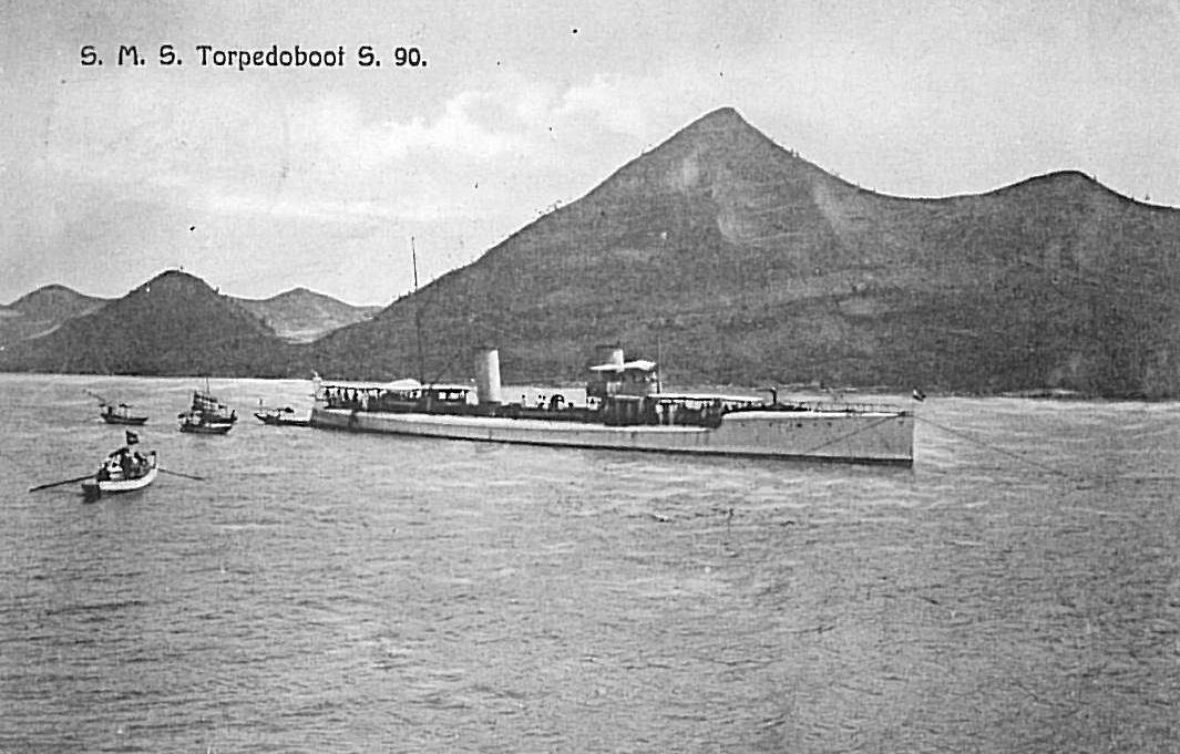 Historical postcard of China: German torpedoboat S 90